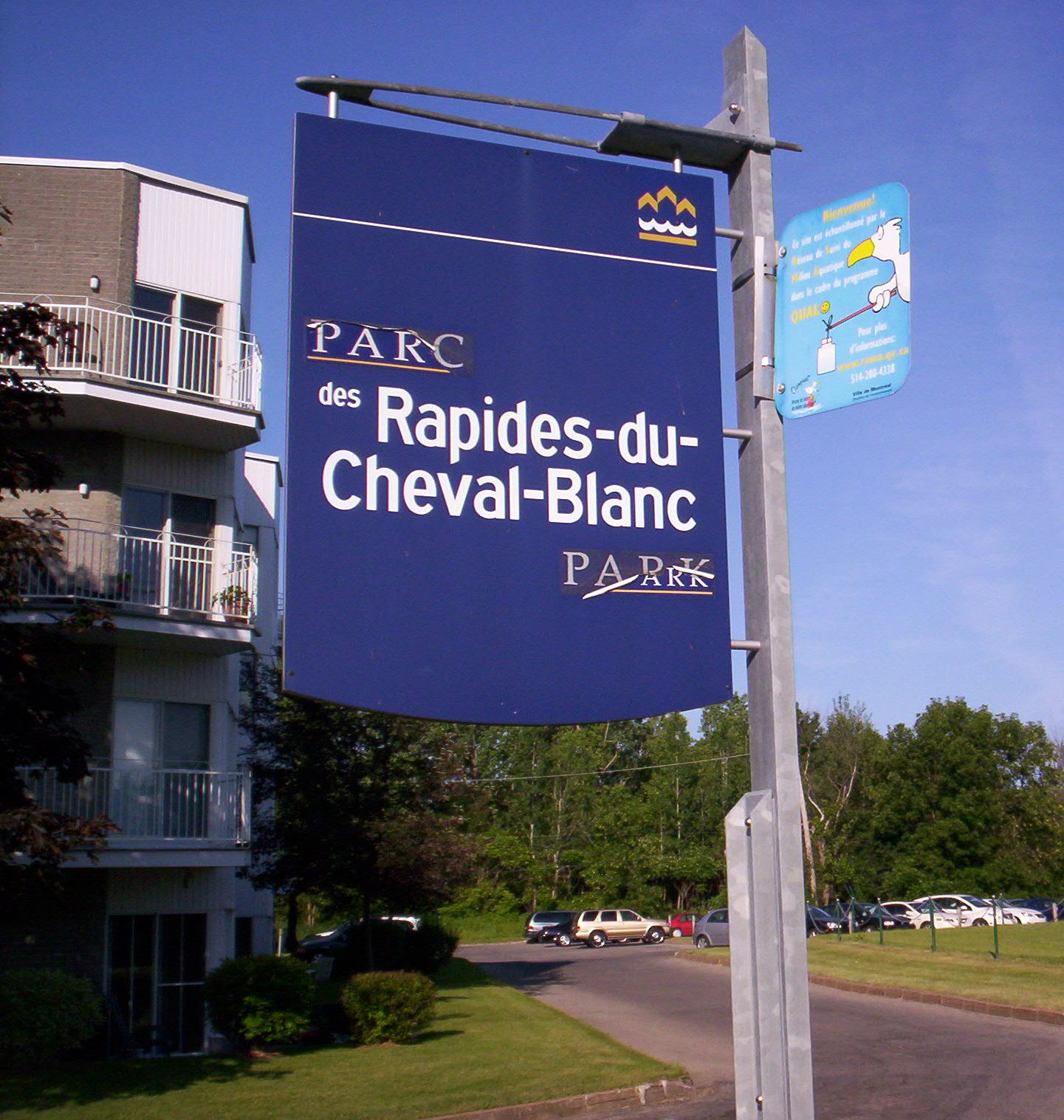 Photo of park sign